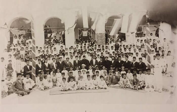 بازدید احمدخان دریابیگی، حکمران بوشهر از مدرسه سعادت/ ۱۳۱۷ قمری